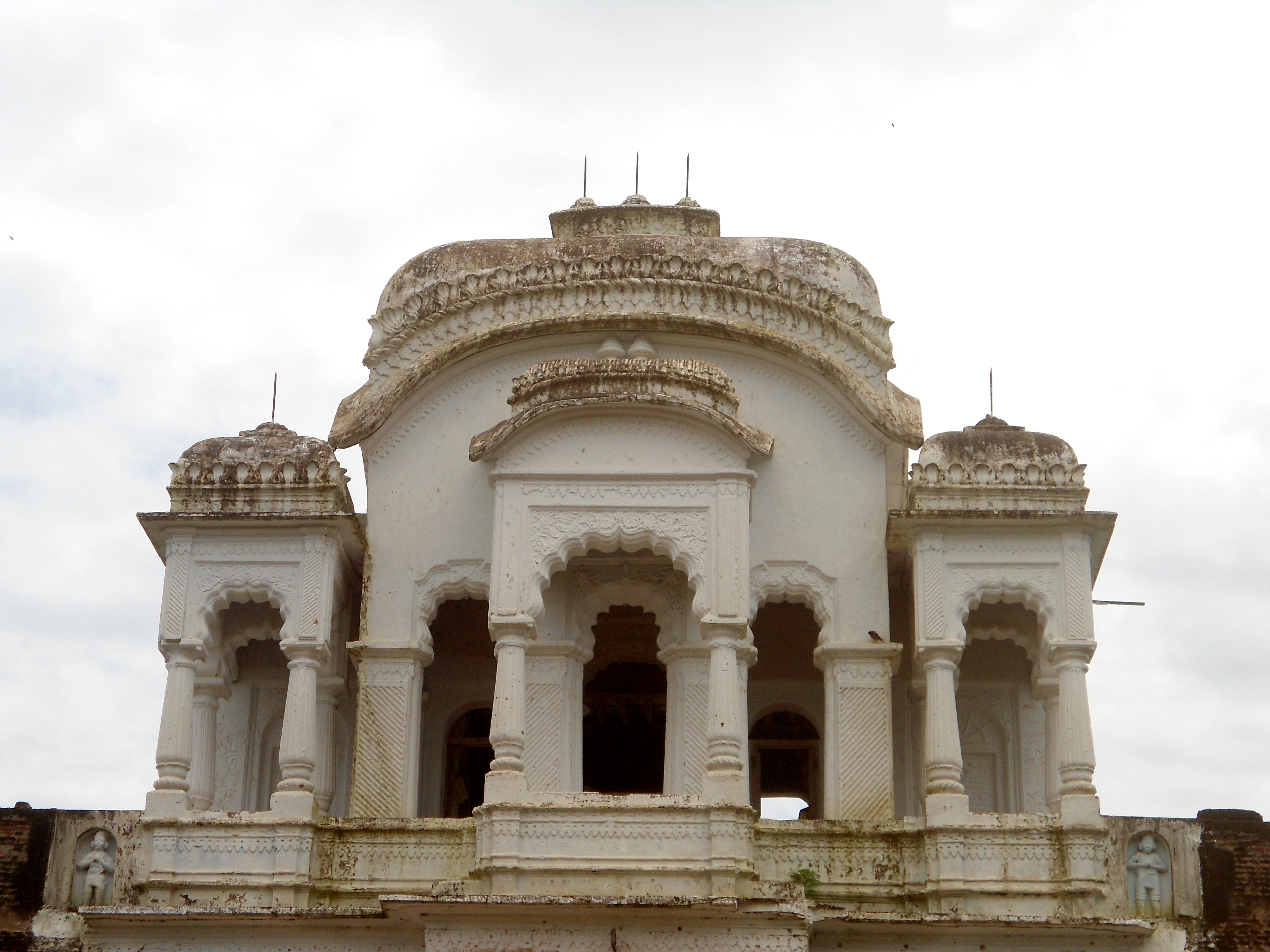 Vizianagaram fort in Andhra Pradesh